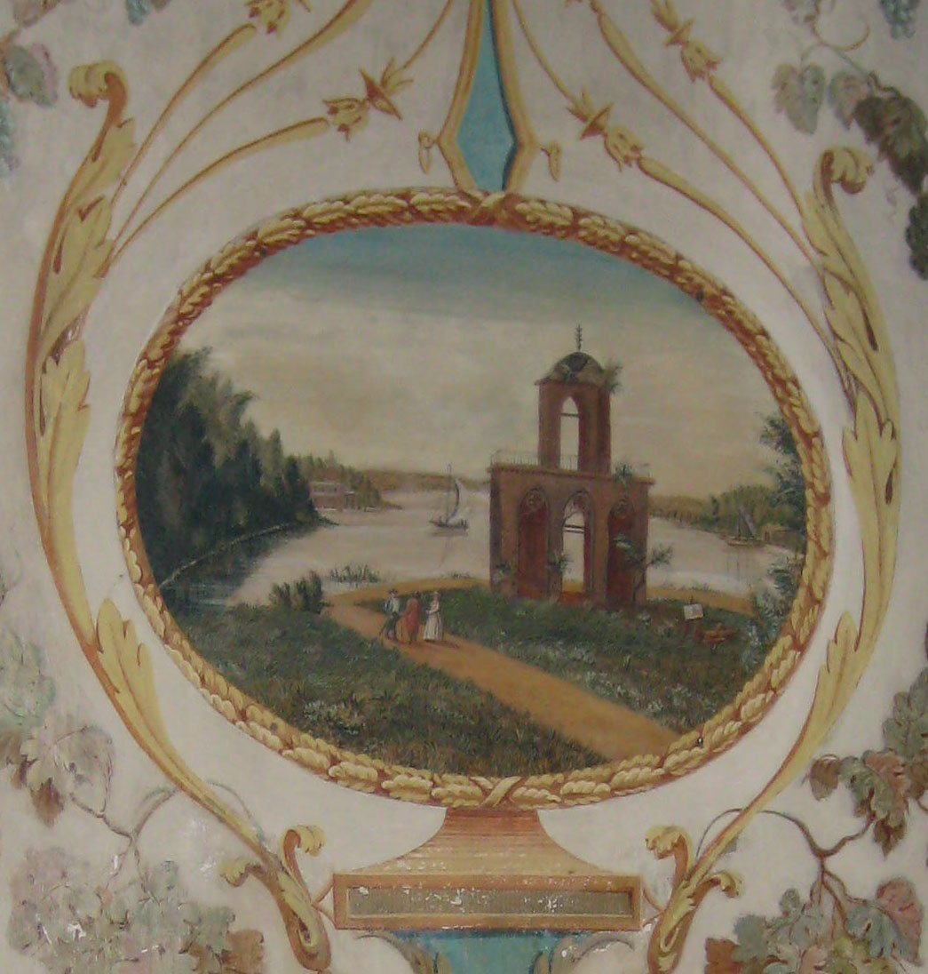 Potsdam, Palais Lichtenau, painting by Dankwart Kühn on a buttress in the ballroom